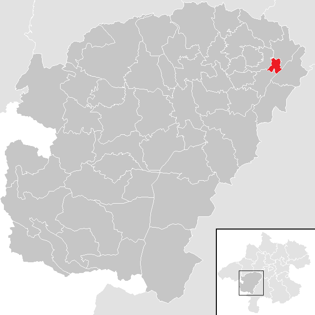 District Vöcklabruck